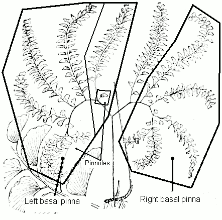 Pictures of Adiantum pedatum modified to illustrate pseudopedate leaf architecture. Left and right basal pinnae and two pinnulets of one basal pinna are labeled.